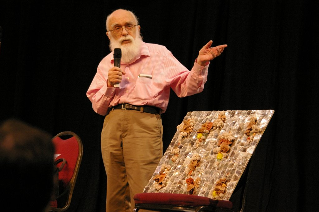 James Randi with some expensive art at the Randi Foundation The Amazing Meeting 2007